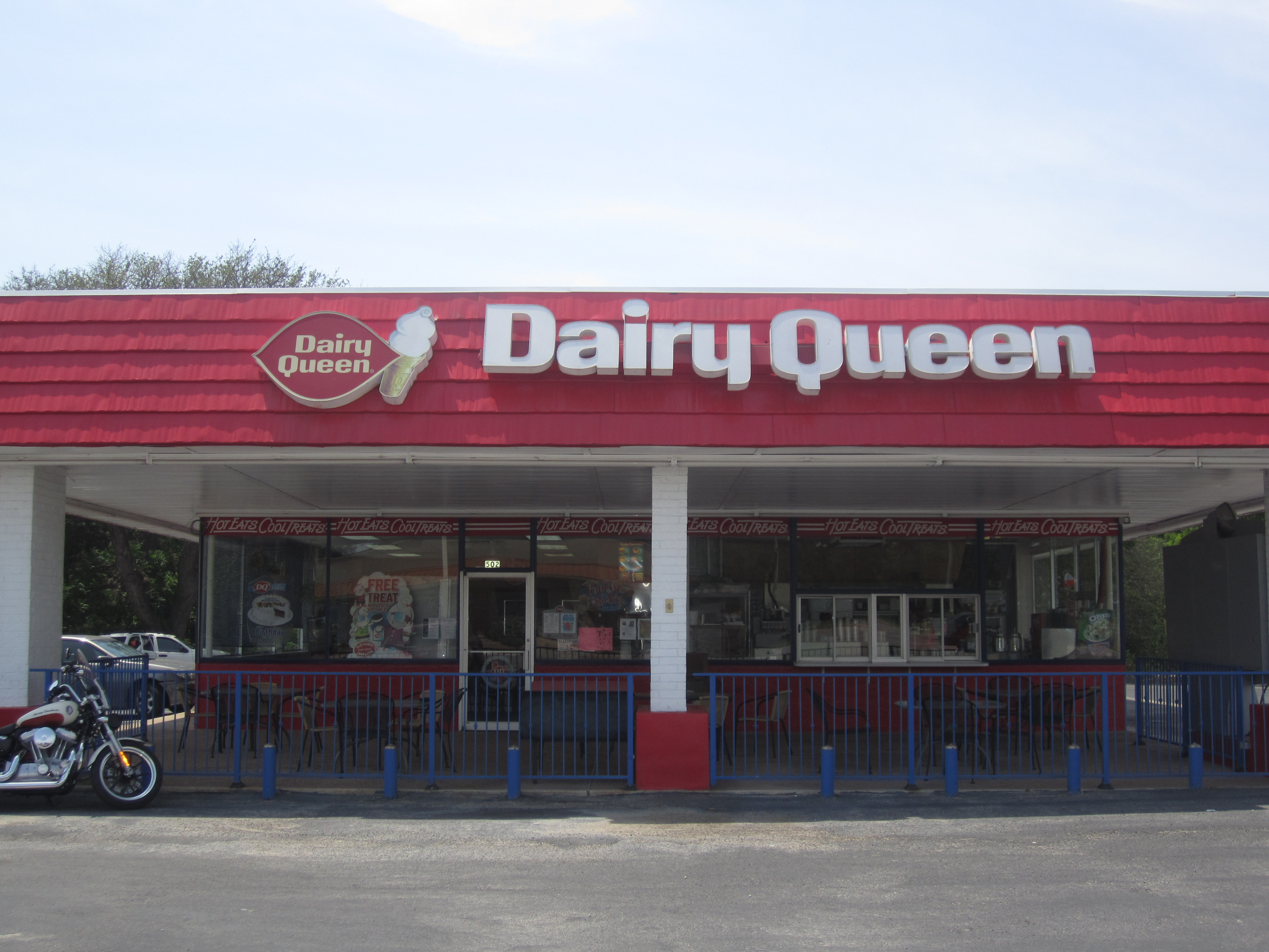 I took photo with Canon camera in Burnet, TX.